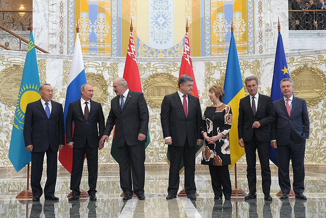 Before the meeting of the Heads of State of the Customs Union with President of Ukraine and representatives of the European Union. On the left: Nursultan Nazarbayev